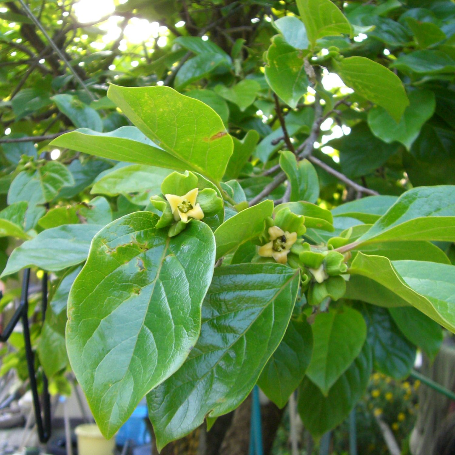 Persimmon's blossom; 柿の花